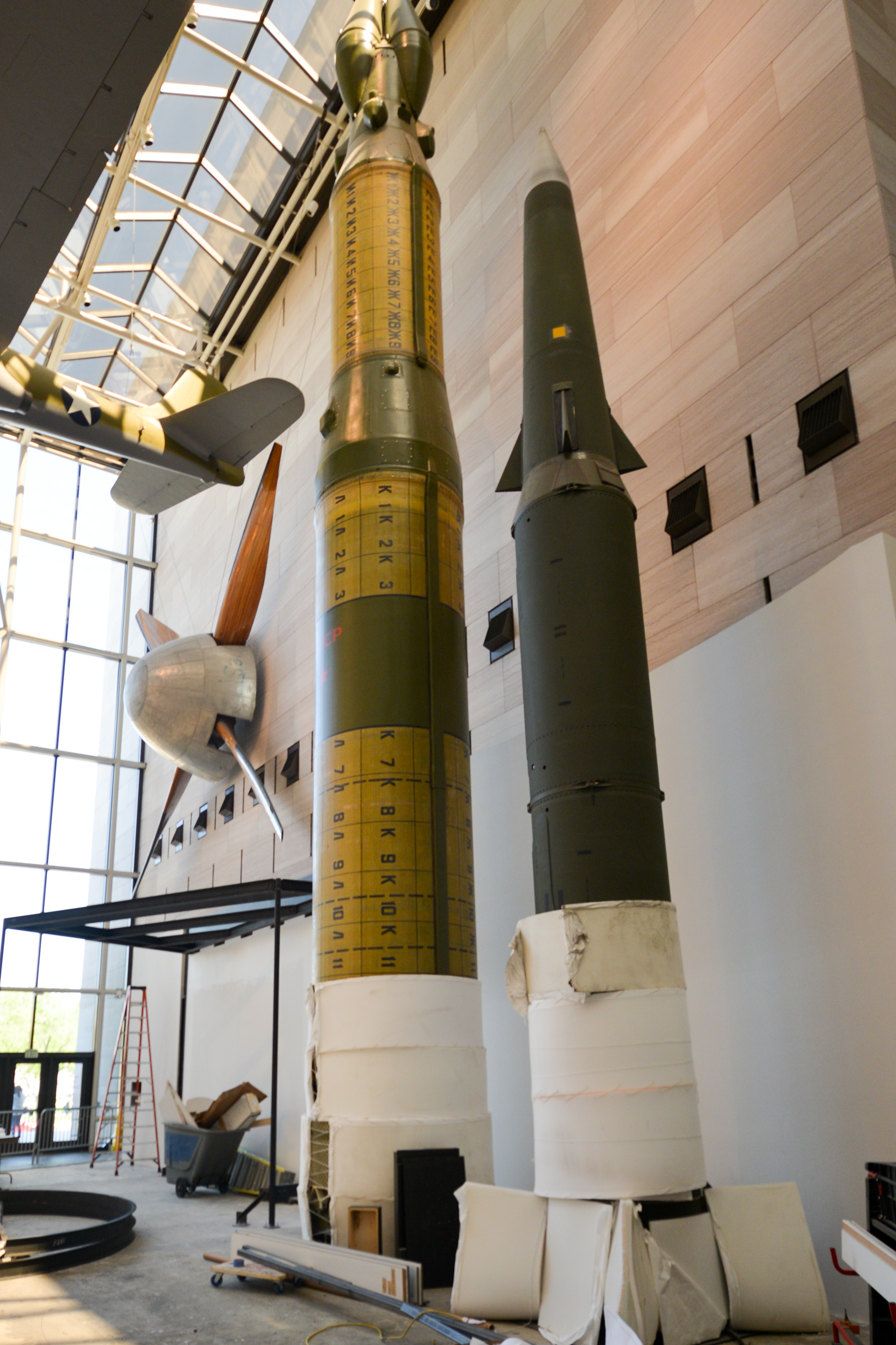 02647-National-Air-and-Space-Museum